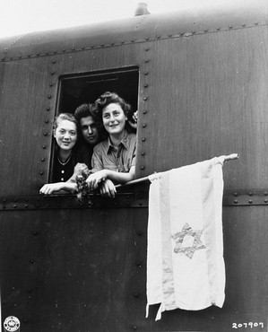 Three young Jewish DPs look out of the window of their train holding a homemade Zionist flag as they depart from Buchenwald on the first leg of their journey to Palestine. The original caption reads, "These three Jewish children are on their way to Palestine after having been released from the Buchenwald concentration camp. The girl on the left is from Poland, the boy in the center is from Latvia and the girl on the right is from Hungary." Pictured are: Yetti (Yocheved) Halpern Beigel (left); Martha Weber (right); and an unidentified Jewish youth from Latvia. Yetti Halpern was born in Cieszyn, Poland in 1925. She was the youngest of nine children. She was incarcerated in the Bochnia ghetto, where she worked as a seamstress. During this period Gisela Halpern Katz, Yetti's oldest sister, whose husband lived in Palestine, received an immigration certificate. Gisela claimed Yetti as her daughter and the two were transferred to Bergen Belsen, to the "foreigner's camp." After the liberation Yetti was sent to a hospital in Buchenwald and from there was taken to France and later to Palestine.